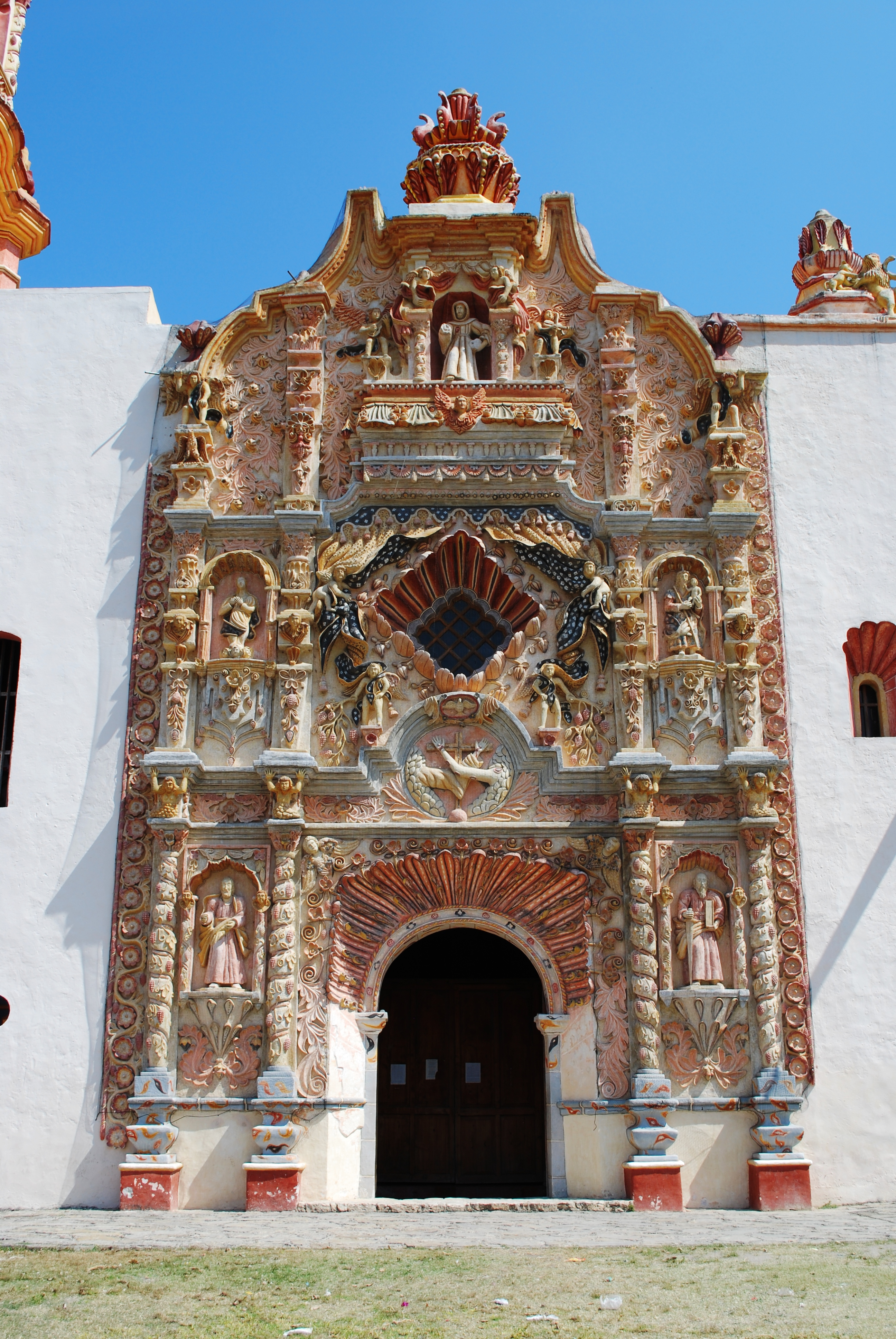 Main portal of the mission in Tilaco, Landa de Matamoros, Querétaro, Mexico